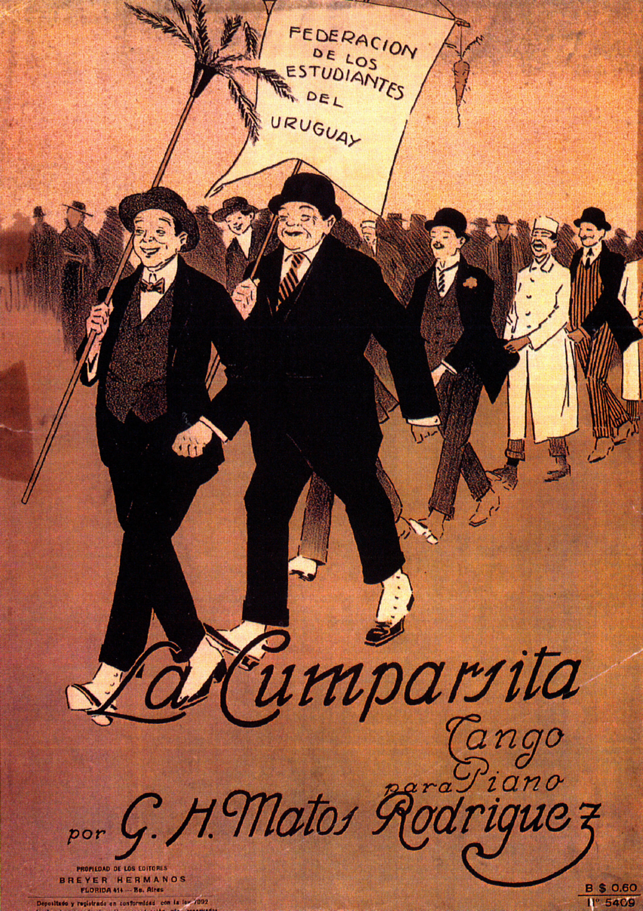 Title of the partitur of the famous tango La Cumparsita